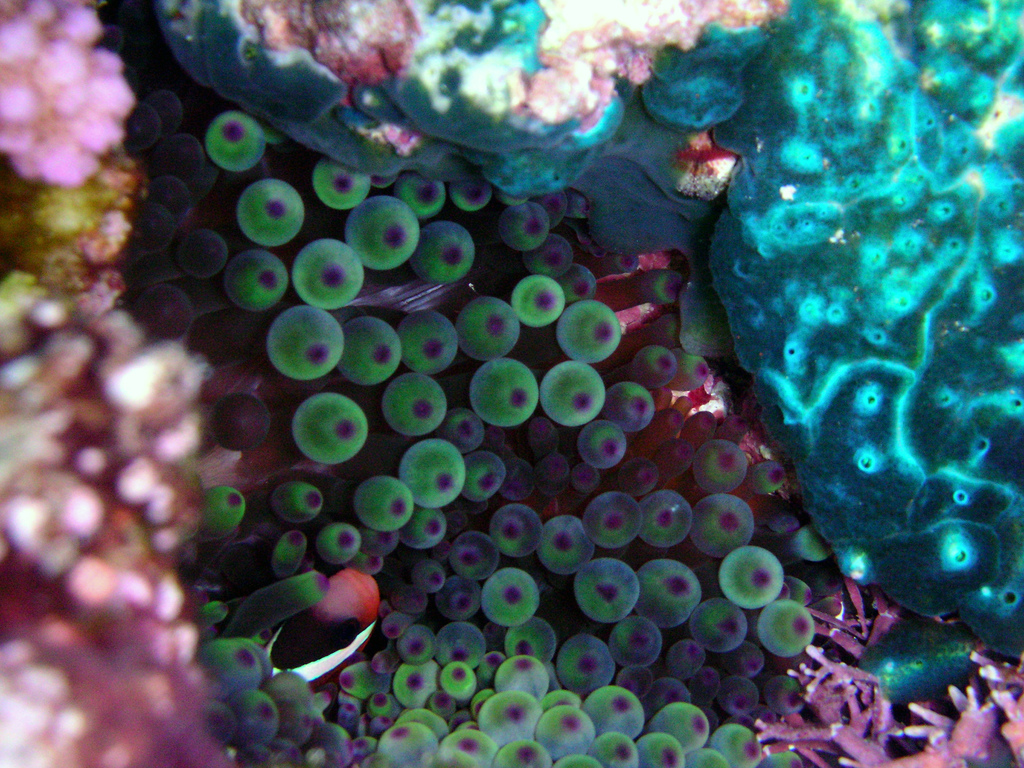 Niue Anemone and Fish